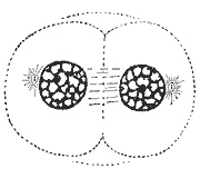 Diagram showing the changes which occur in the centrosomes and nucleus of a cell in the process of mitotic division. (Schäfer.) I to III, prophase; IV, metaphase; V and VI, anaphase; VII and VIII, telophase. This is step VII cut out from :Image:Gray2.png. The original copyright is duplicated below.